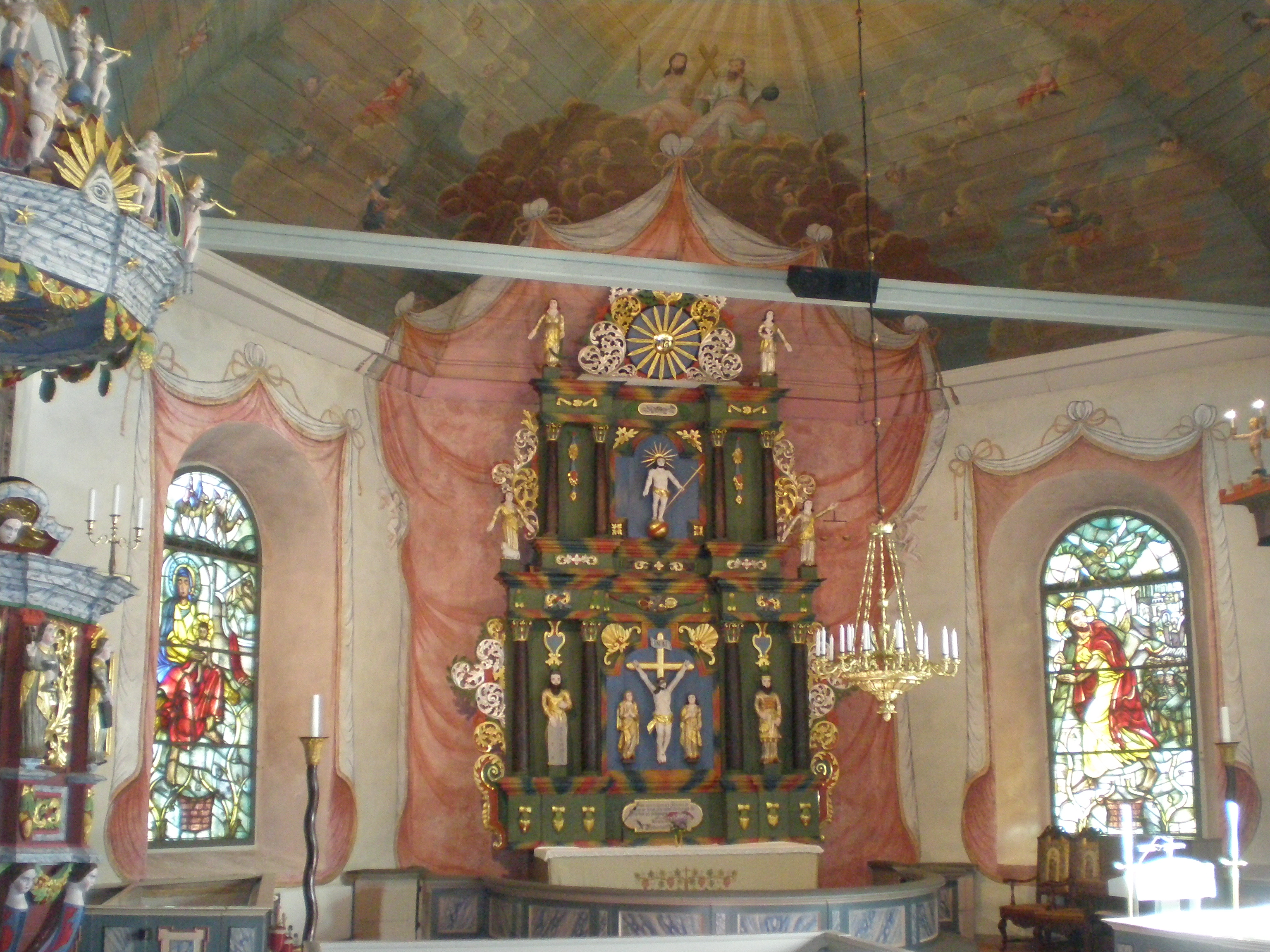 Gräsmark church inside